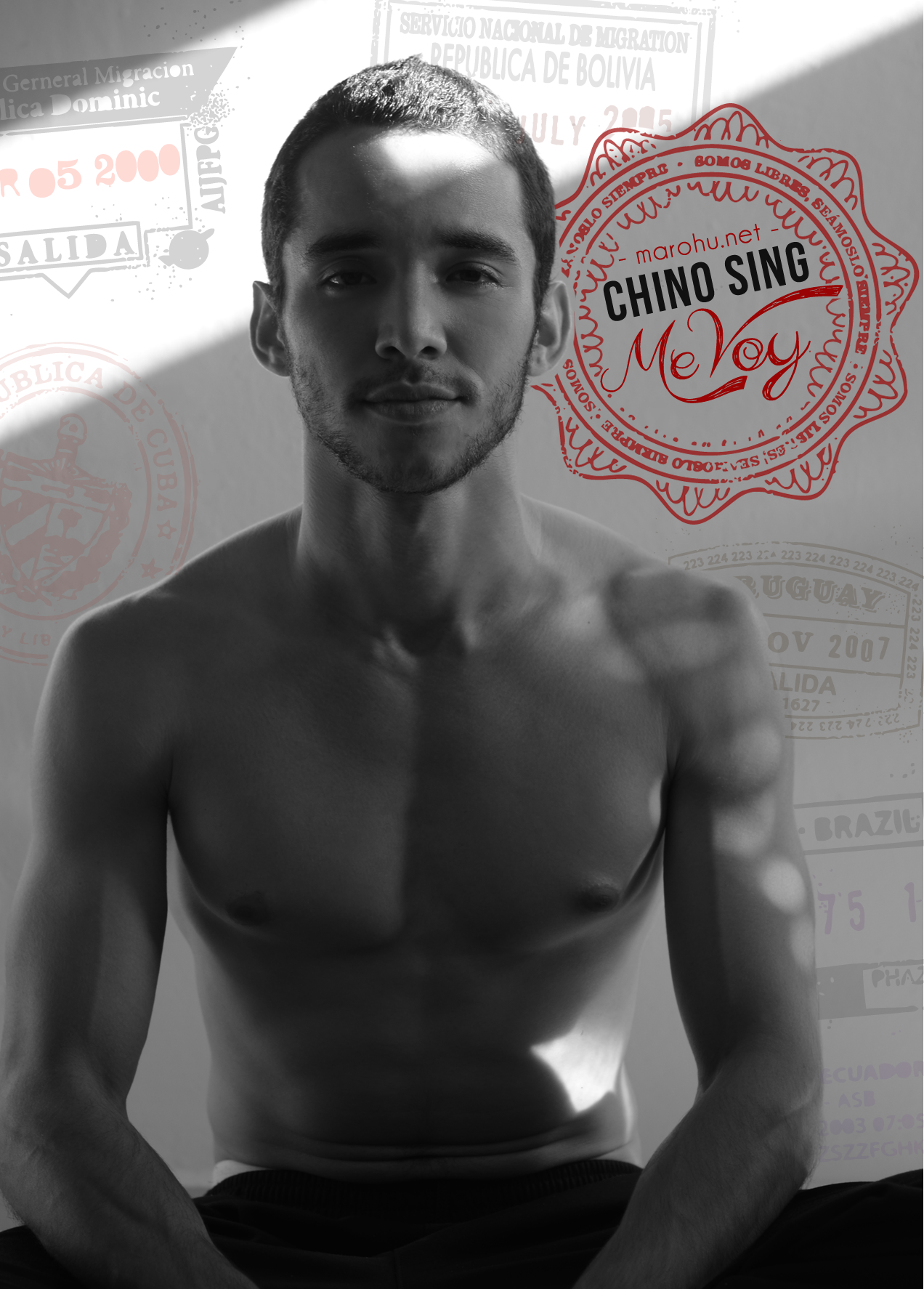 Promotional picture for Chino Sing's "Me Voy" single, released in April 2014